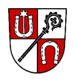 Coat of Arms of Eisenheim